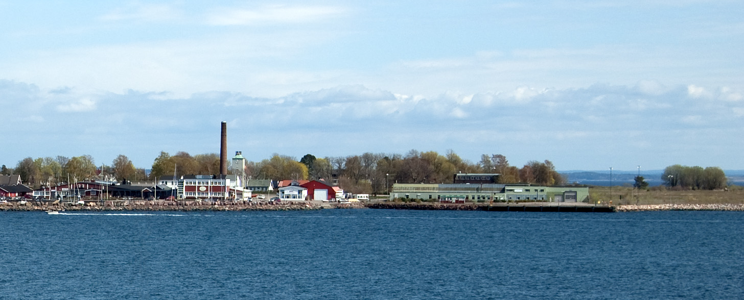 Vallø peninsula in Tønsberg, Vestfold, Norway.